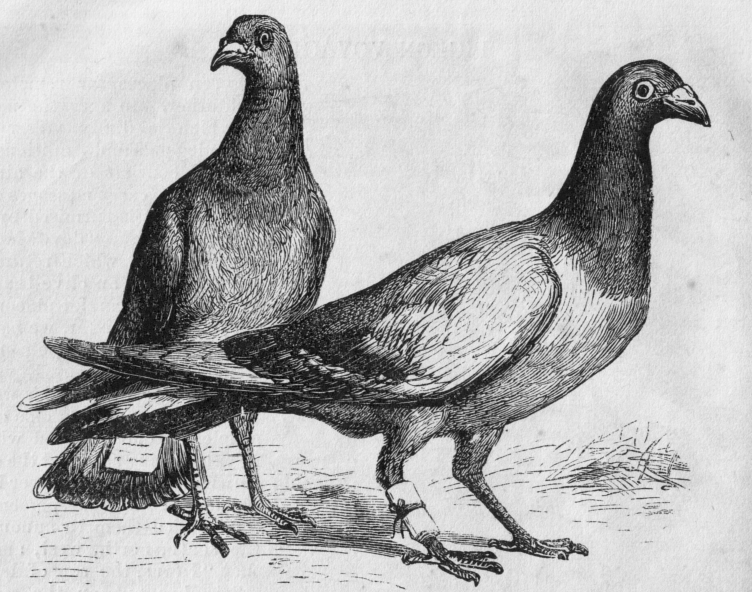 Engraving of "carrier pigeons" (actually probably homing pigeons), with messages attached.